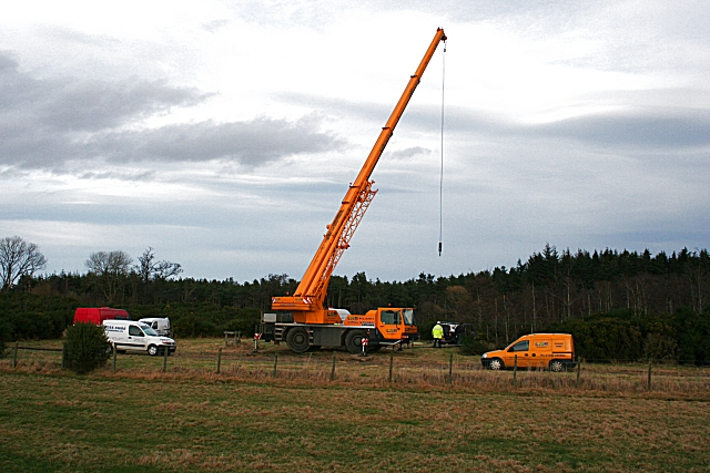 Inspecting a Borehole In order to inspect the inside of the borehole, the crane is needed to remove the pump so that a remotely operated camera can be lowered into it.